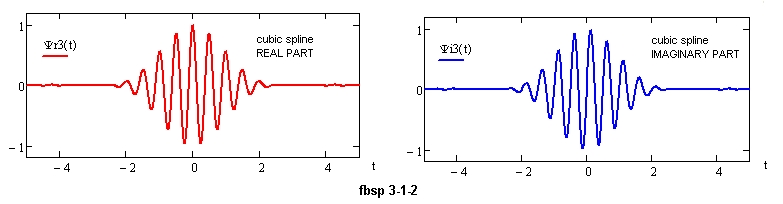 Frequency B-Spline wavelets: cubic spline fbsp 3-1-2 complex wavelet. plot of real and imaginary part of fbsp, numerically computed